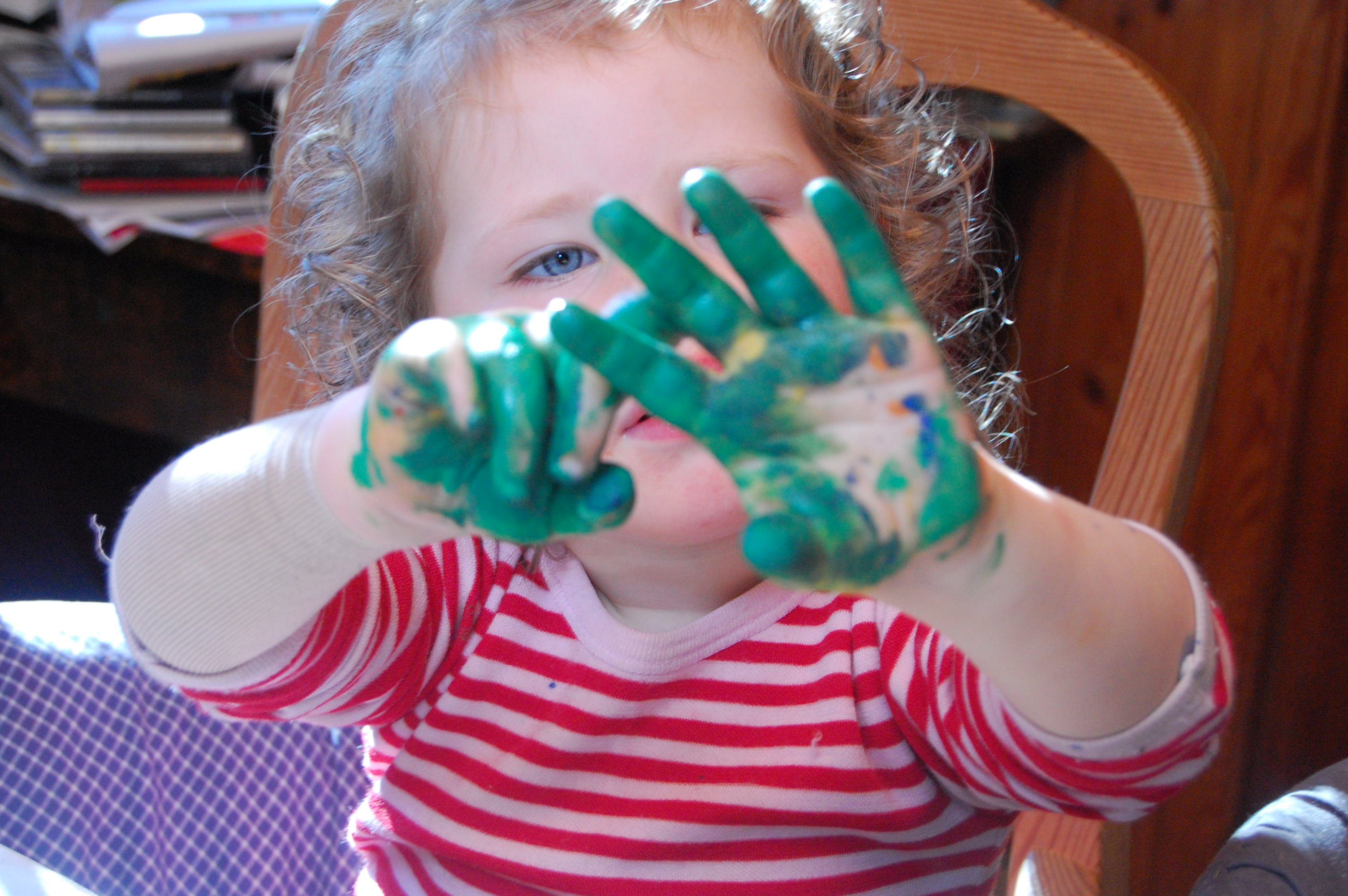 Little girl shows her hands covered in finger paint.